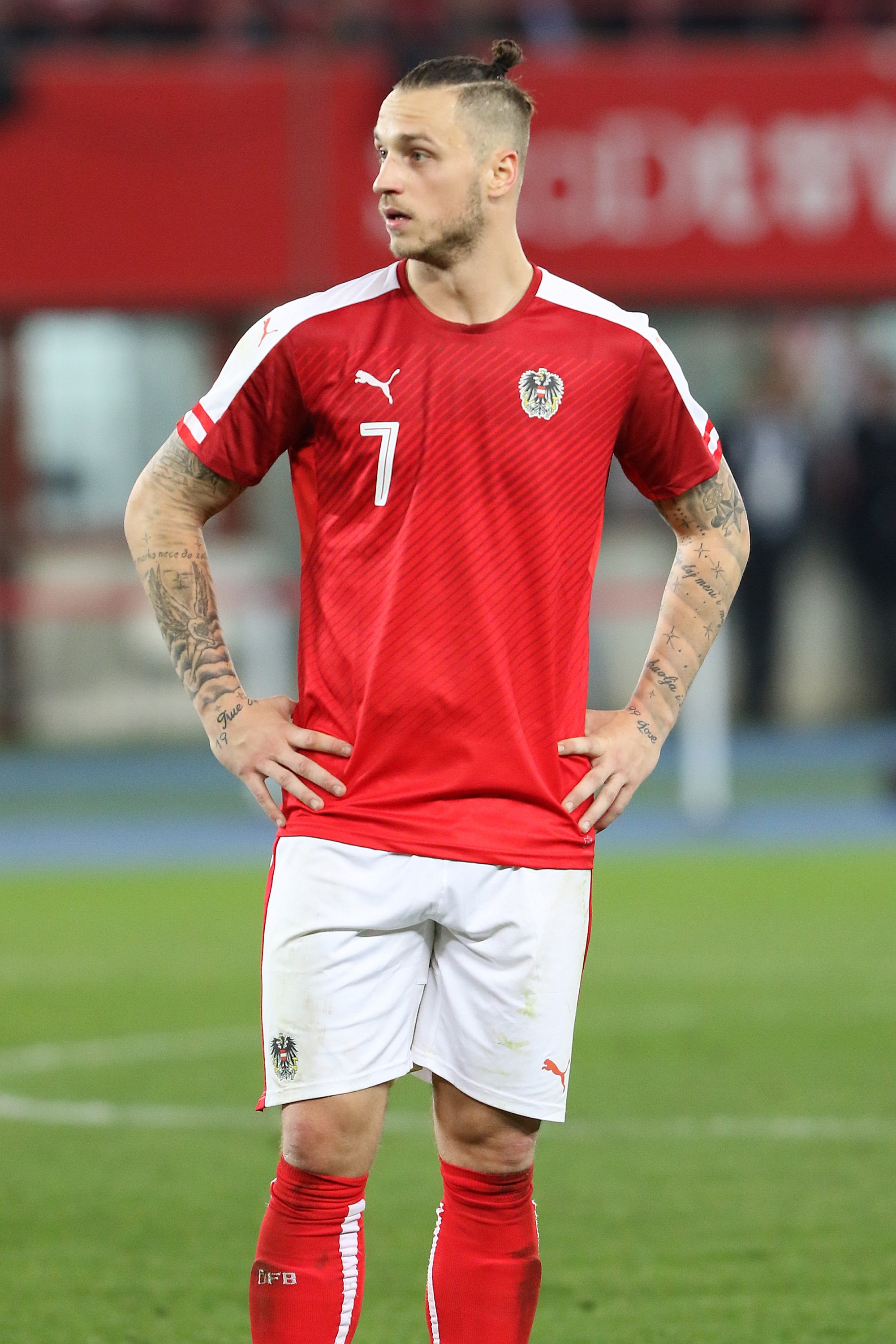 Friendly match – Austria (red shirts) vs. Turkey (blue shirts) 1–2 (1–1) on 2016-03-29 in Ernst-Happel-Stadion, Vienna – The photo shows Marko Arnautović (Stoke City).